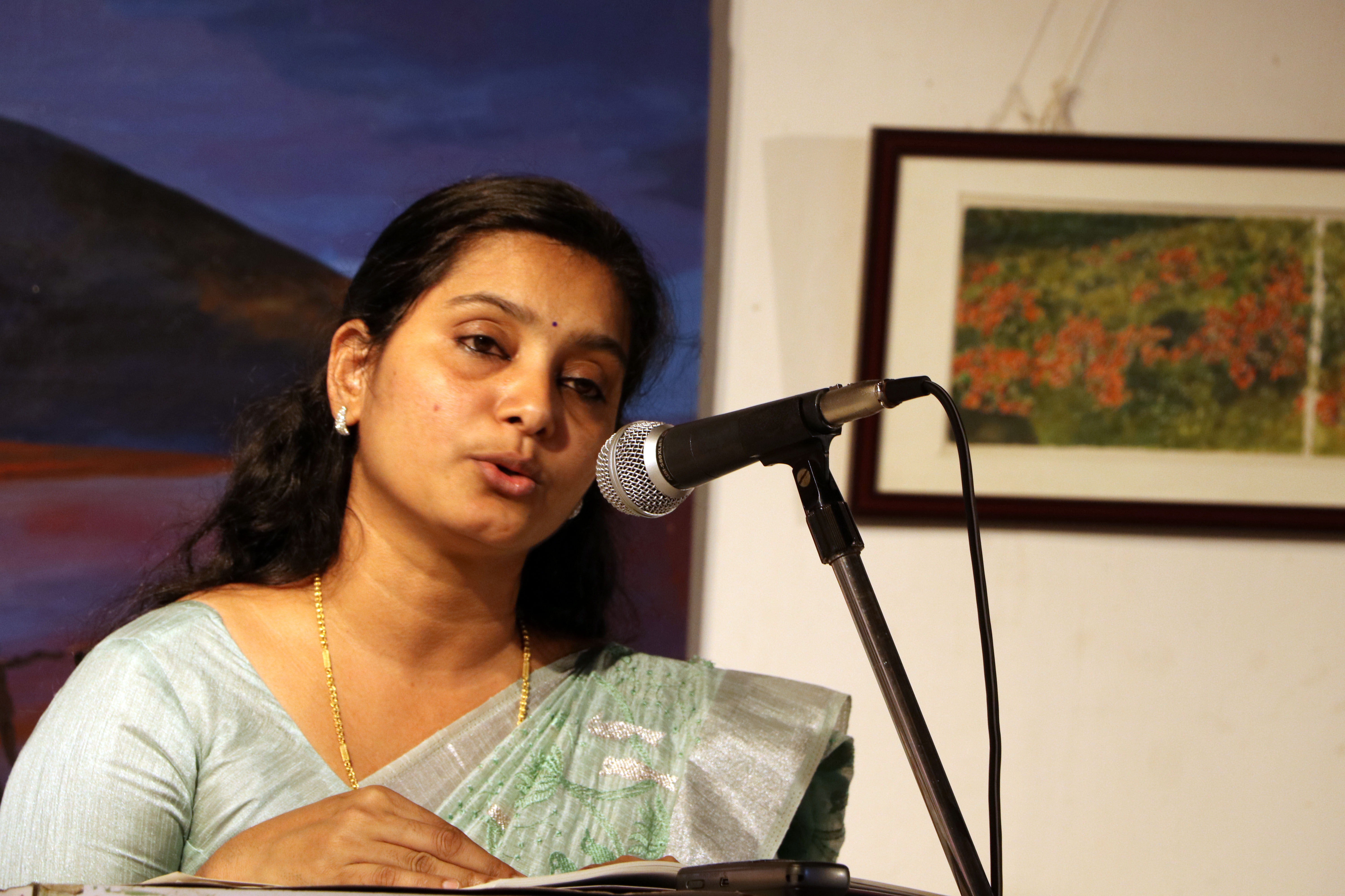 Photograph of Malayalam poet Sushama Bindu, from a reading session at Tellicherry Arts Society